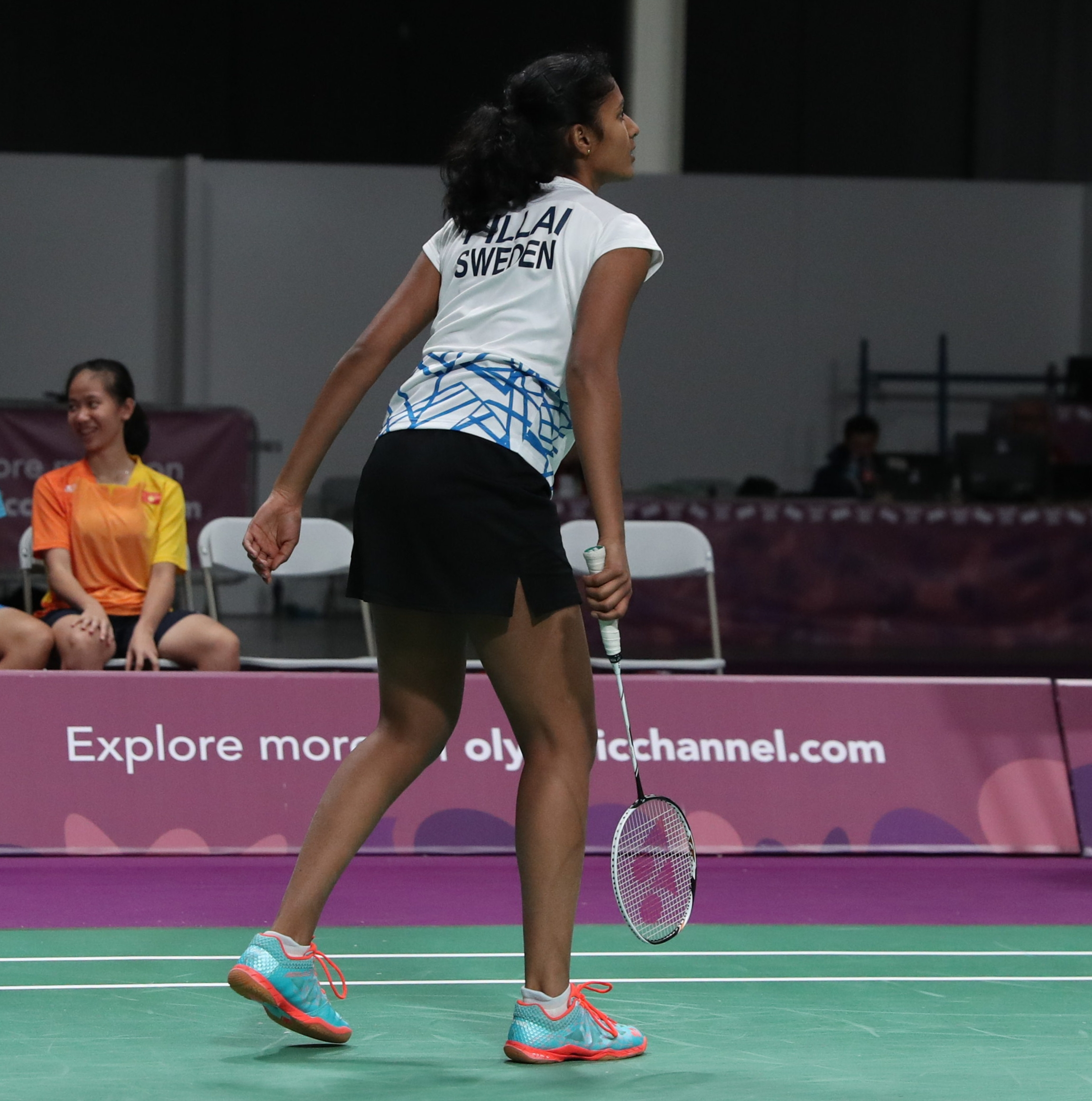 Final at the Badminton Mixed International Team competition